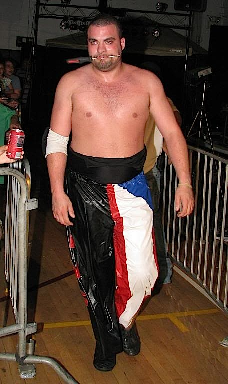 Eddie Kingston bringing a screwdriver to the ring to attack an opponent